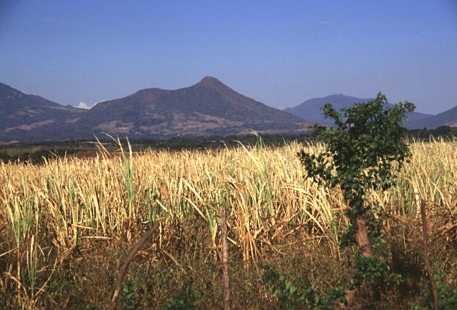 Taburete volcano, seen here from the SW, rises more than 1100 m above the Pacific coastal plain east of the Río Lempa in El Salvador.